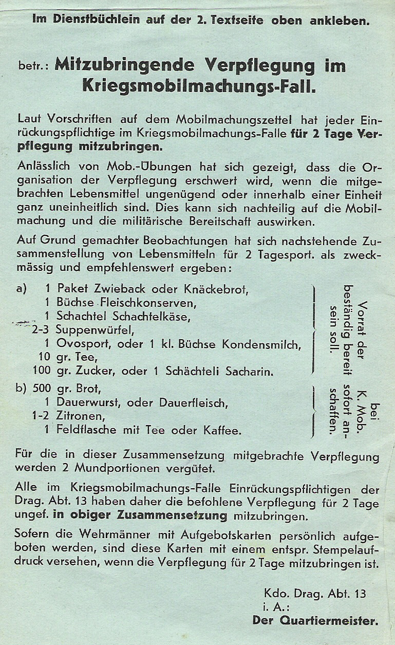 Mobilization bulletin of the Swiss Army in WWII